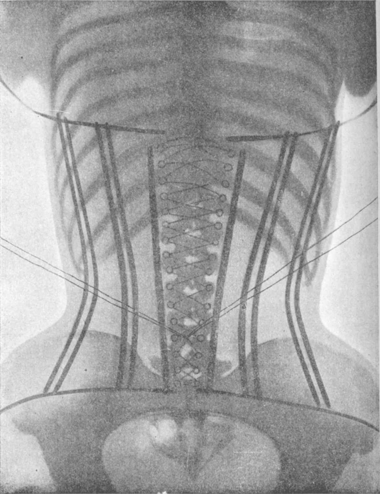 X-Rays of Women in Corsets.